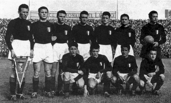 Torino Ragazzi 1948-49